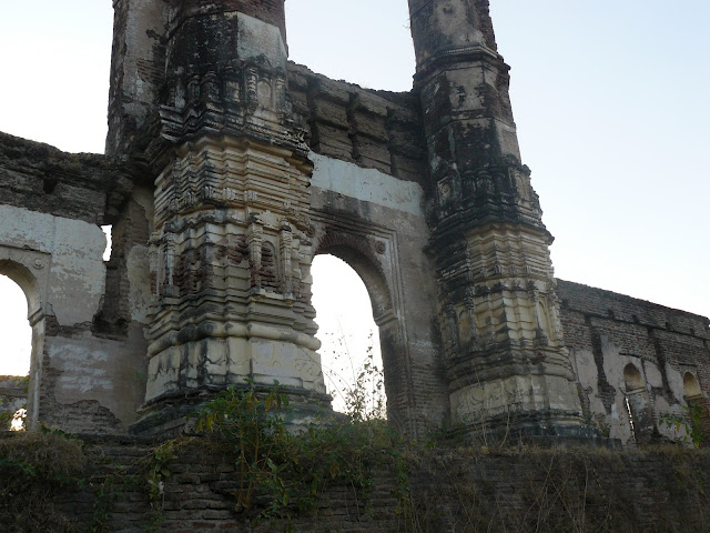 Nagina Masjid